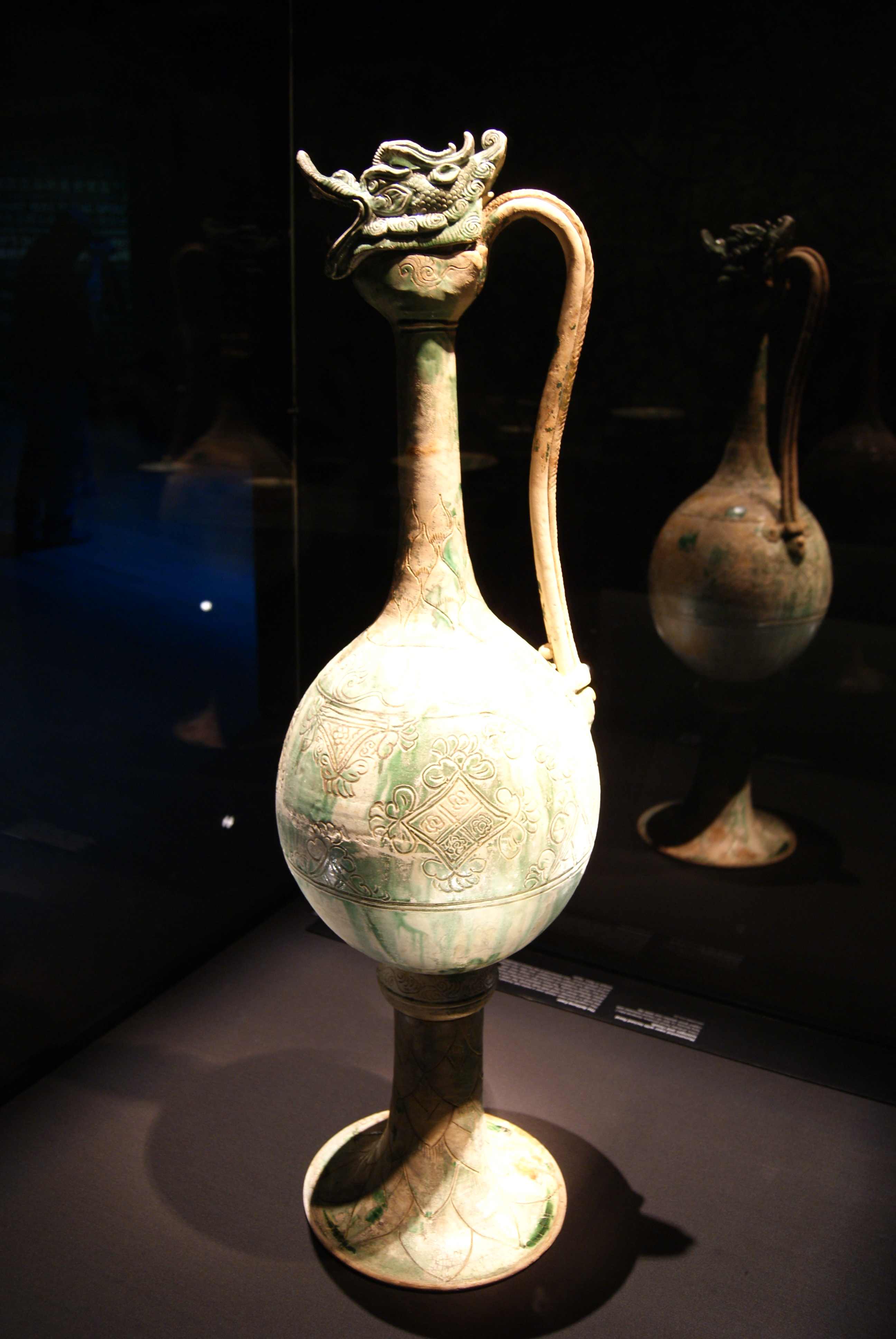 Part of the collection of artifacts from the Belitung shipwreck owned by the Sentosa Leisure Group and the Government of Singapore, photographed while displayed at an exhibition called Shipwrecked: Tang Treasures and Monsoon Winds at the ArtScience Museum, Marina Bay Sands, Singapore, from 19 February 2011 to 31 July 2011.